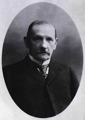 Rasmus Otto Mønsted (1838-1916), Danish industrialist and philanthropist